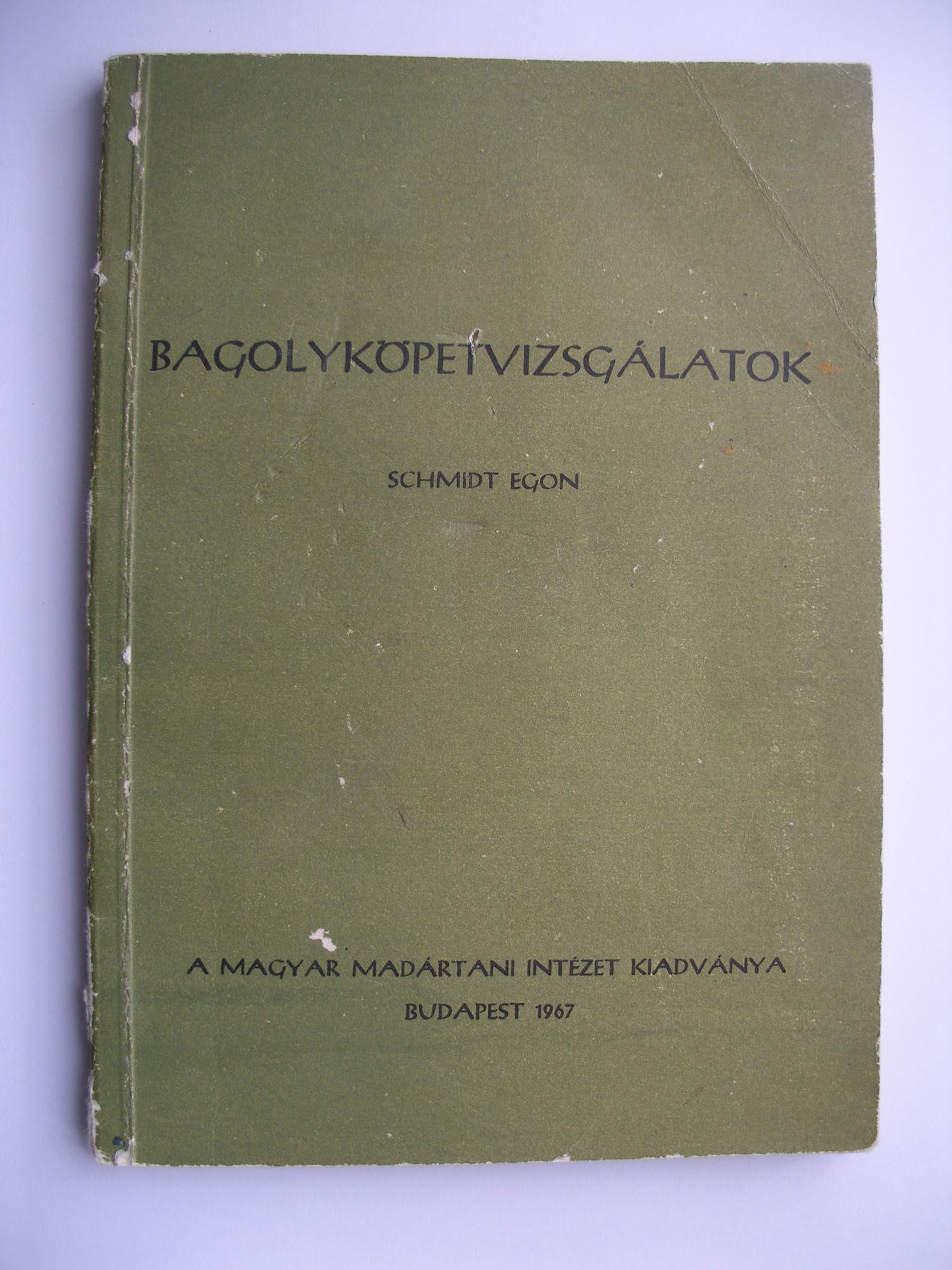 Pelett...